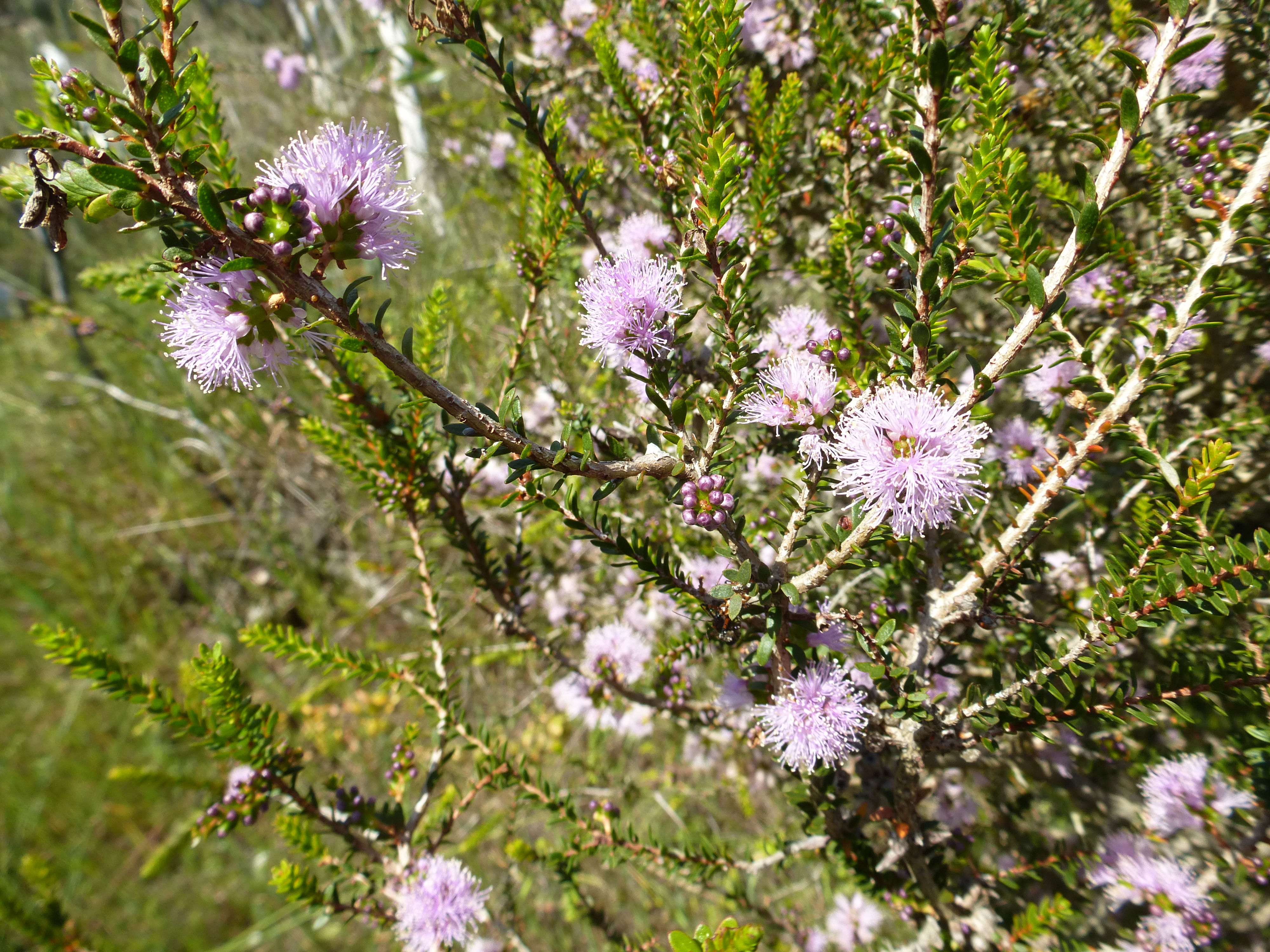 Melaleuca camptoclada at the type location on Chester Pass Road near the Woogenellup Road junction